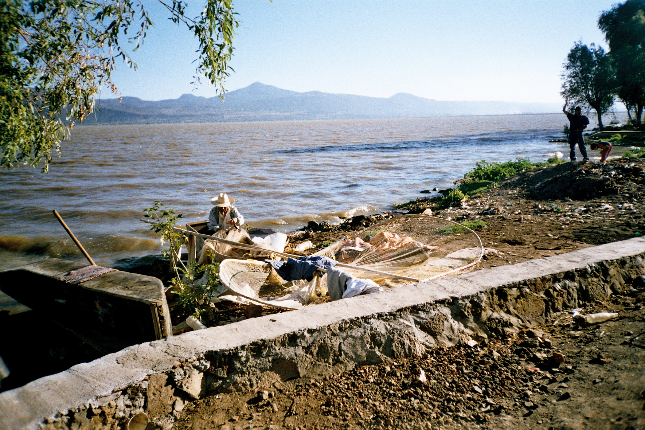 Fisher man in the shore of Patzcuaro lake (or Zirahuen Lake, I need to check this) Michoacan, Mexico. Picture taken in the spring of 2005 by me.